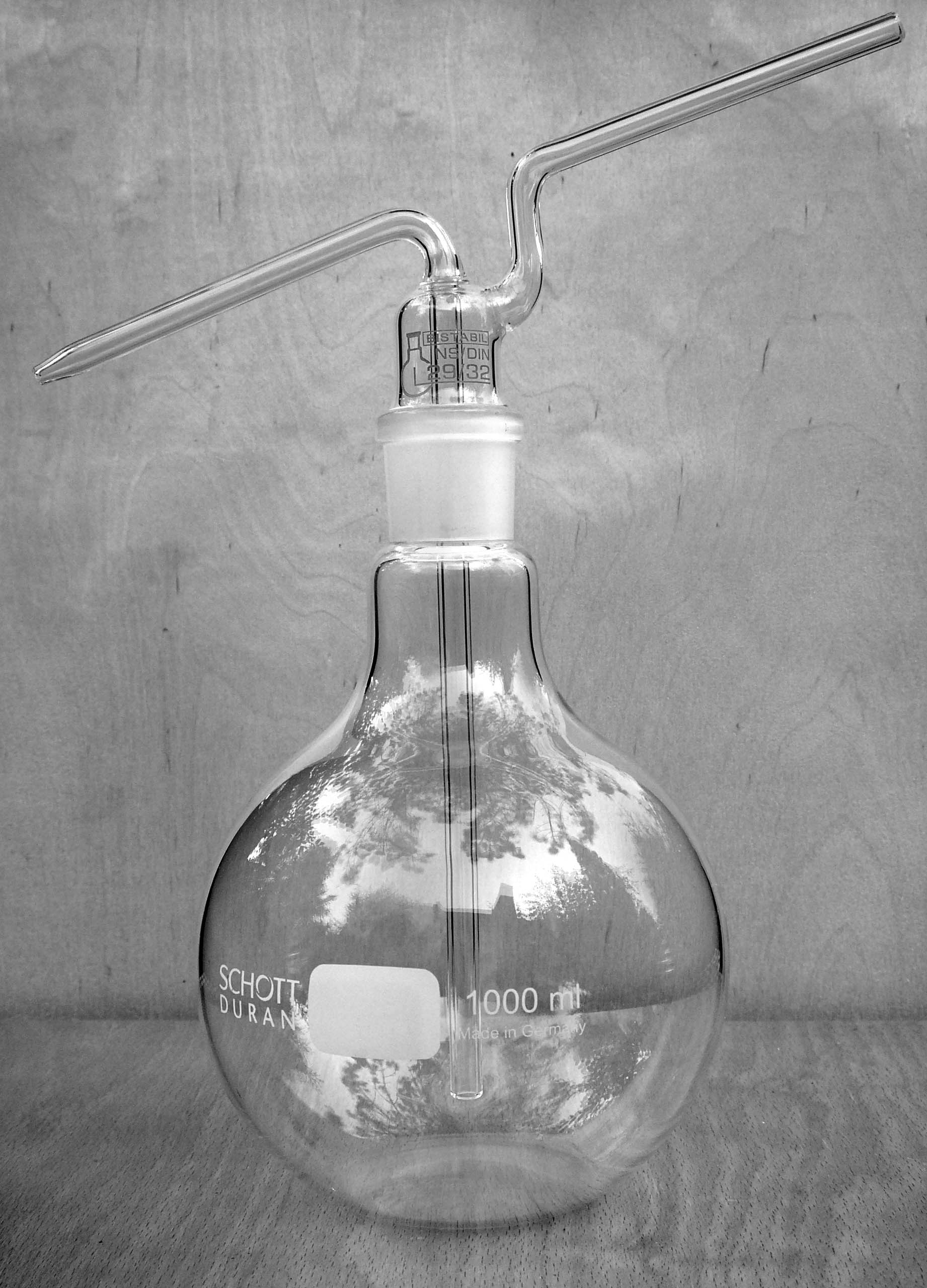 Wash bottle